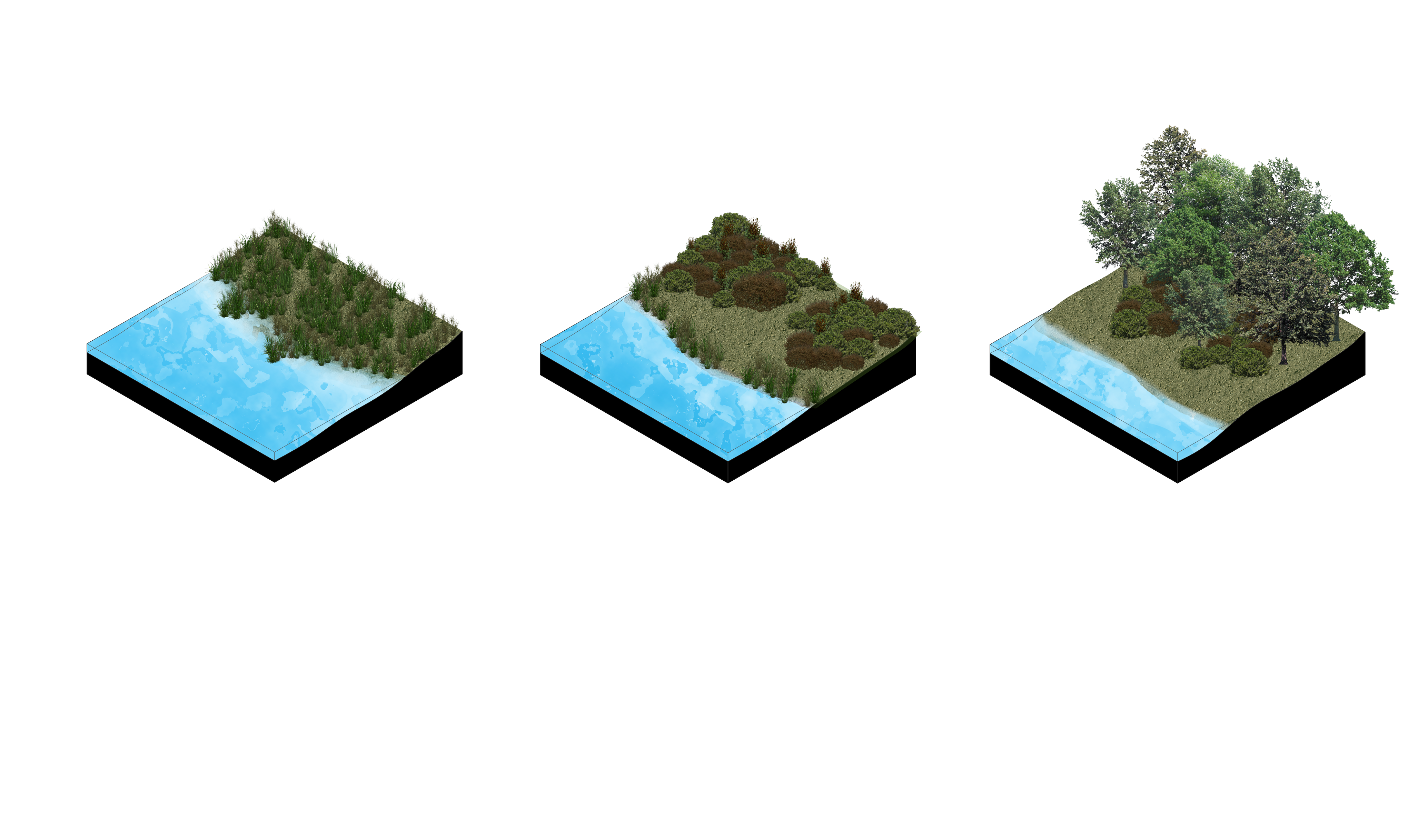 The graphic depicts a wetland over time. In the beginning the marsh is full of grasses. Over time the marsh would change into a wetland forest with large trees and shrubs.